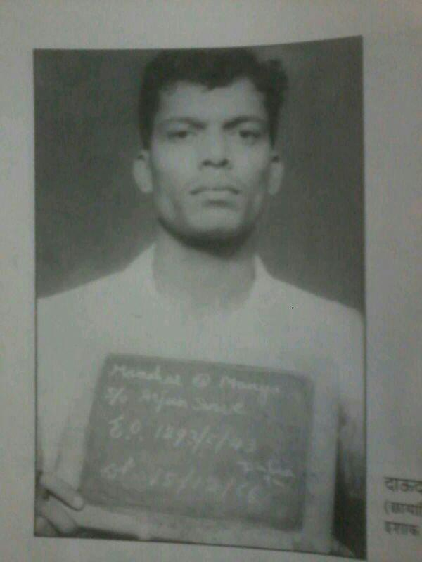 This is the police file picture of Manohar Arjun Surve aka Manya Surve.